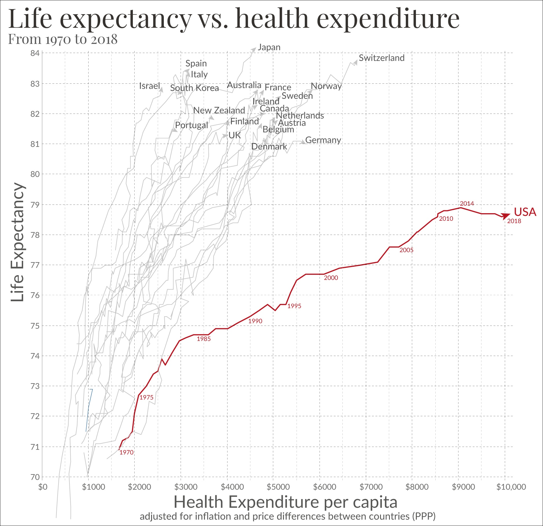 Life expectancy compared to healthcare spending per capita from 1970 to 2014, in the US and the next 22 most wealthy countries. The definition of health spending given by the OECD is the following: “Health spending measures the final consumption of health care goods and services (i.e. current health expenditure) including personal health care (curative care, rehabilitative care, long-term care, ancillary services and medical goods) and collective services (prevention and public health services as well as health administration), but excluding spending on investments. Health care is financed through a mix of financing arrangements including government spending and compulsory health insurance (“public”) as well as voluntary health insurance and private funds such as households’ out-of-pocket payments, NGOs and private corporations (“private”). This indicator is presented as a total and by type of financing (“public”, “private”, “out-of-pocket”) and is measured as a share of GDP, as a share of total health spending and in USD per capita (using economy-wide PPPs).”